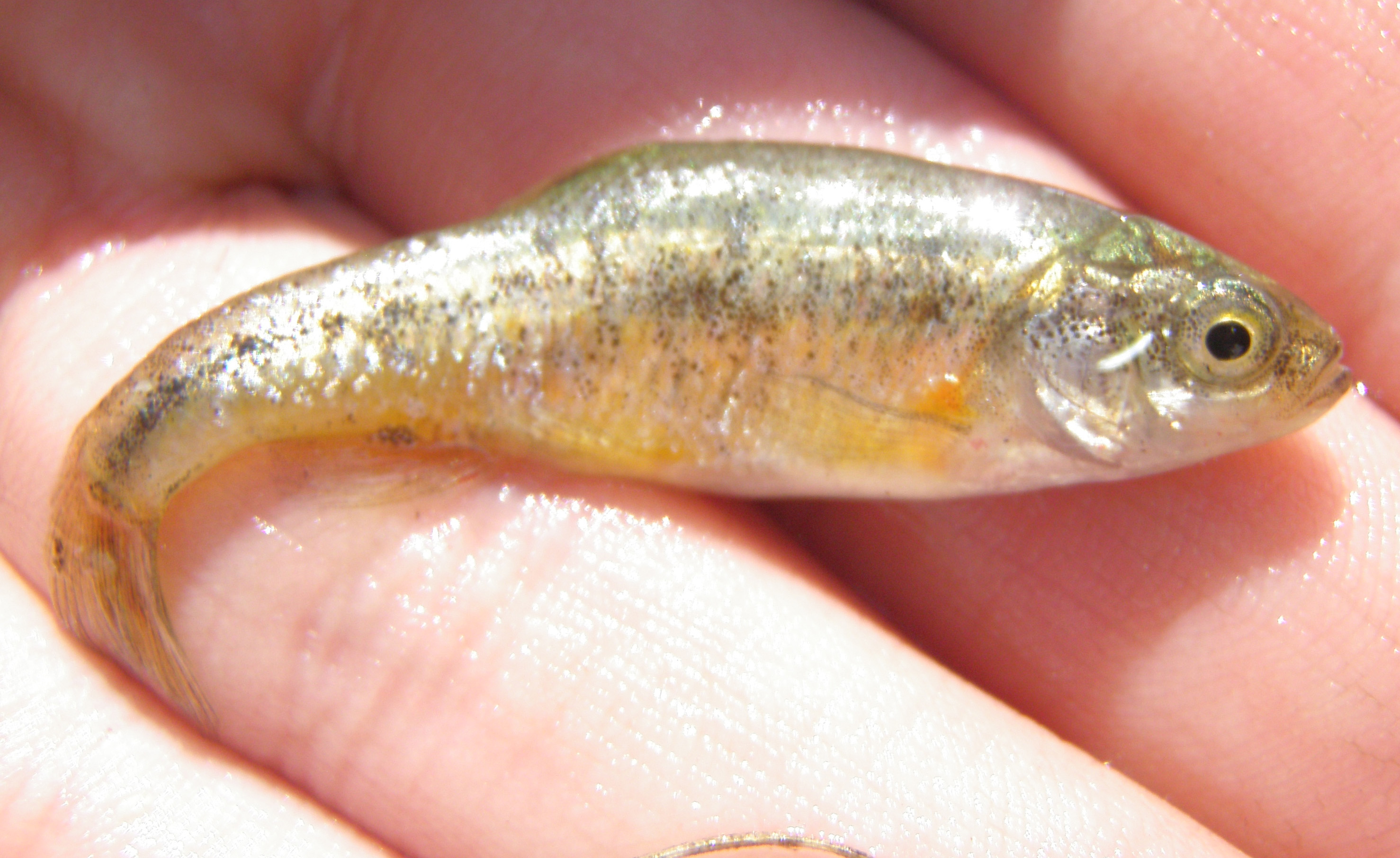 Least Chub (Iotichthys phlegethontis) — from a range expansion program at Rosebud Ranch, in western Box Elder County, Utah.